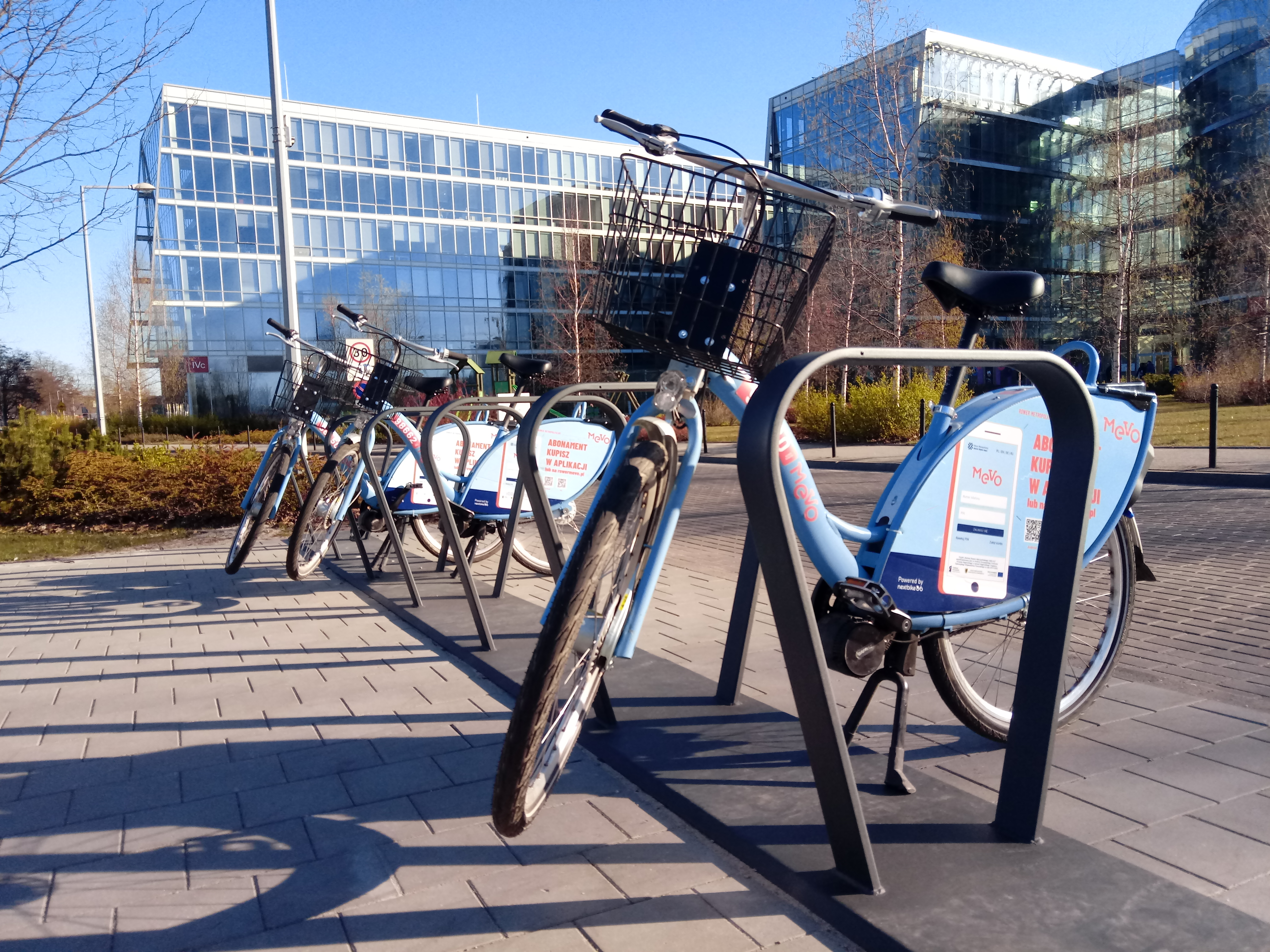 Metropolitan Bikes Mevo at docking station in front of Pomeranian Science and Technology Park Gdynia, Poland